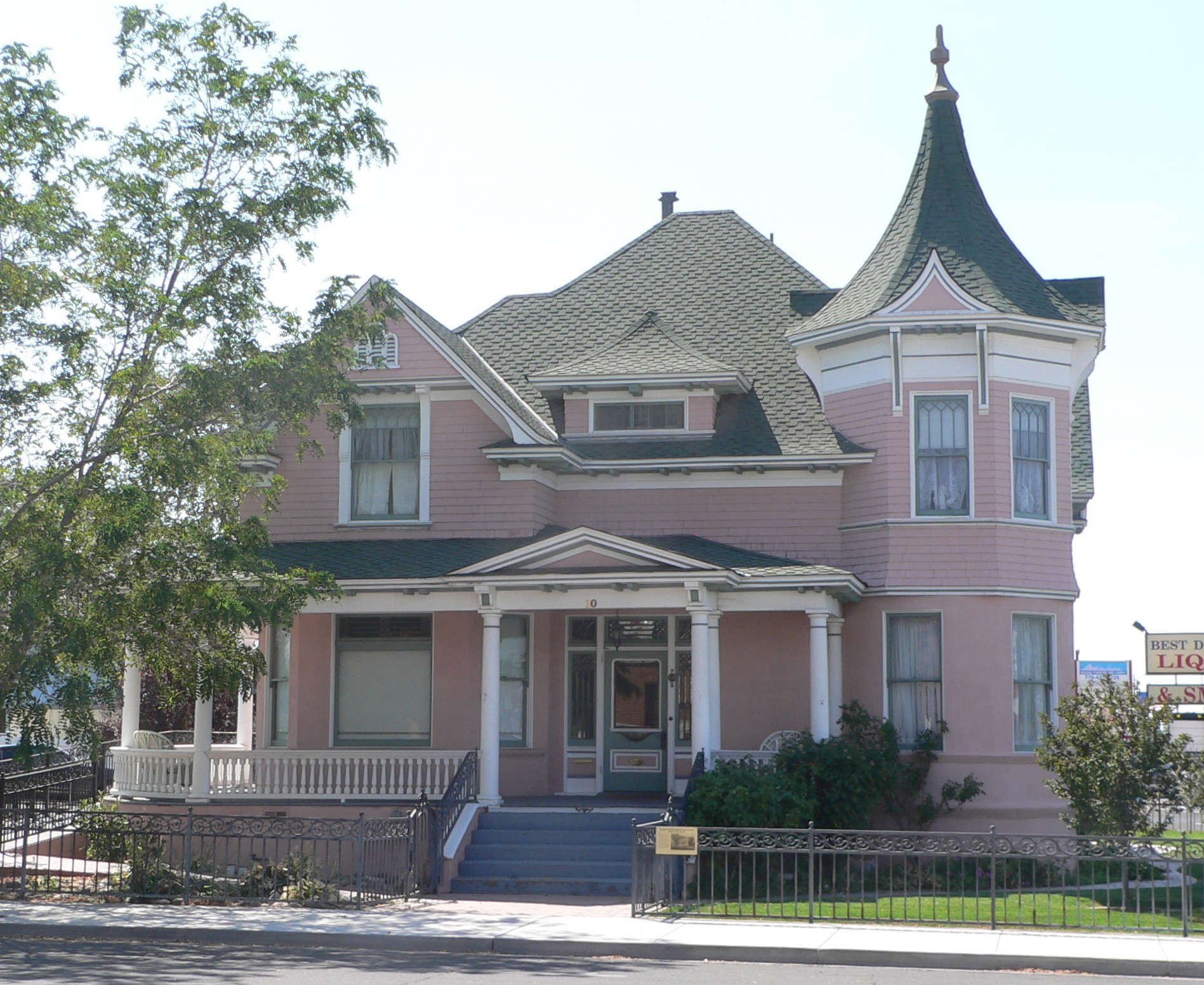 Robert L. Douglass mansion, located at 10 S. Carson (southwest corner of Carson and US Highway 95) in Fallon, Nevada; seen from the east, across Carson.